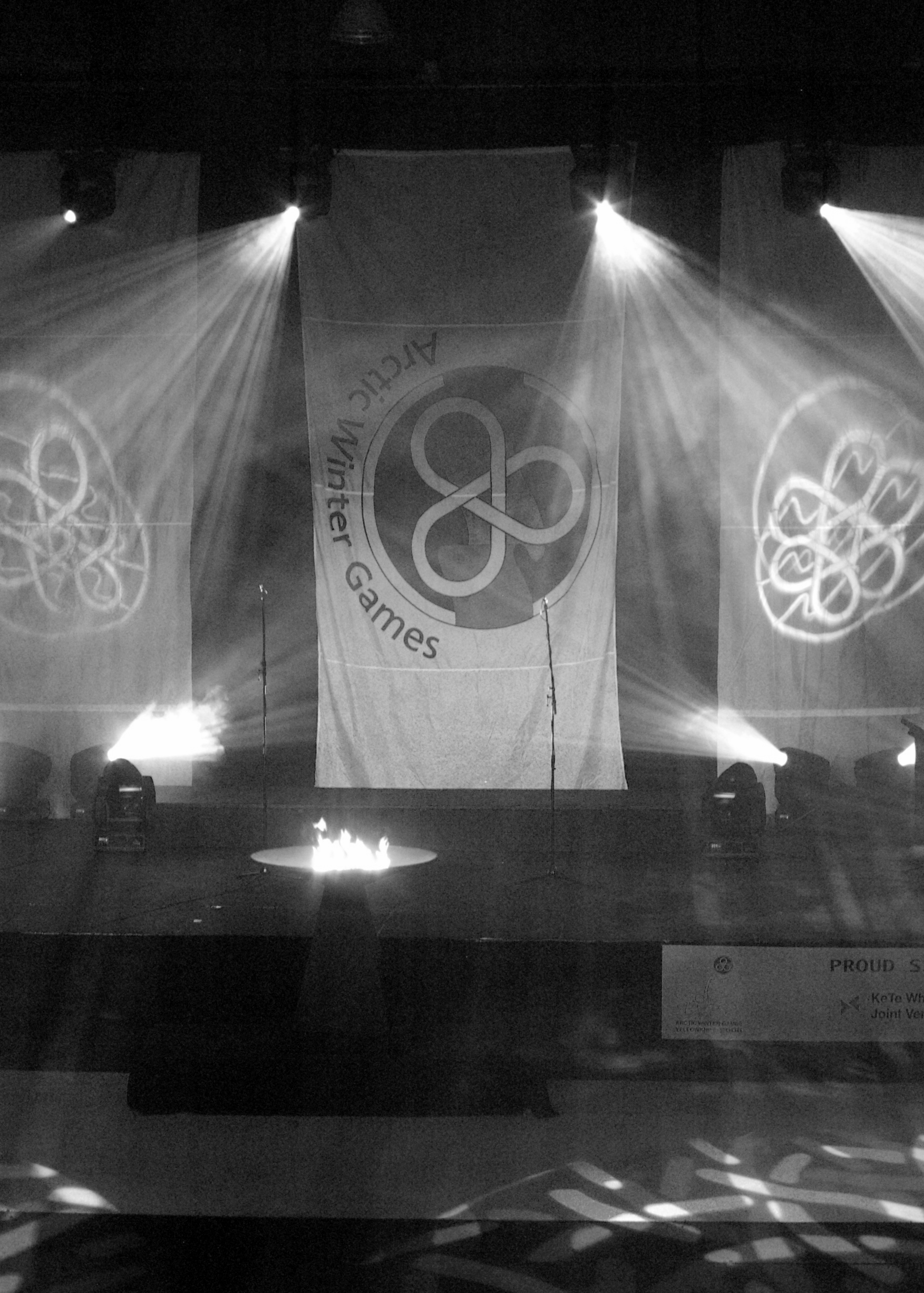 The 20th Arctic Winter Games came to a close tonight. The next games will be held in Grande Prairie, Alberta in March 2010. Until then! Before the madness... For more information on the Arctic Winter Games check out